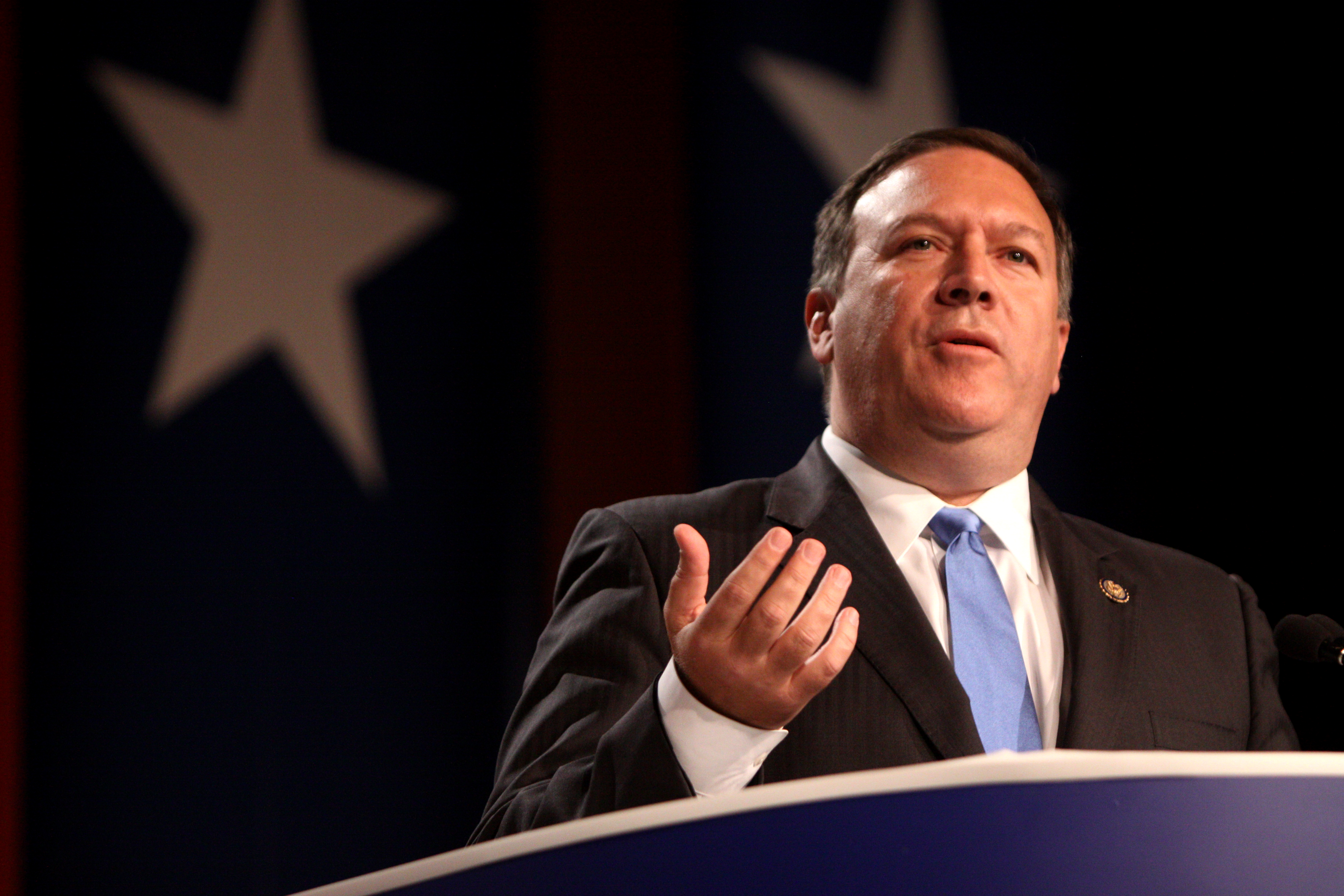 U.S. Congresman Mike Pompeo speaking at the 2011 Values Voter Summit in Washington, DC.